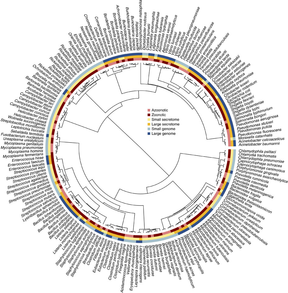 Illustration of the phylogenetic distribution of zoonotic status, secretome (i.e. secreted proteome) size and genome size for 191 pathogenic bacteria. Zoonotic pathogens are those that can transmit between humans and animals. Large genomes and secretomes are those greater than the median and small are less than or equal to the median. Note that the tree is ultrametricized for illustrative purposes only. Figure 2 from "Cooperative secretions facilitate host range expansion in bacteria" Nature Communications 5 Description adapted from article under CC-BY 4.0 licence.